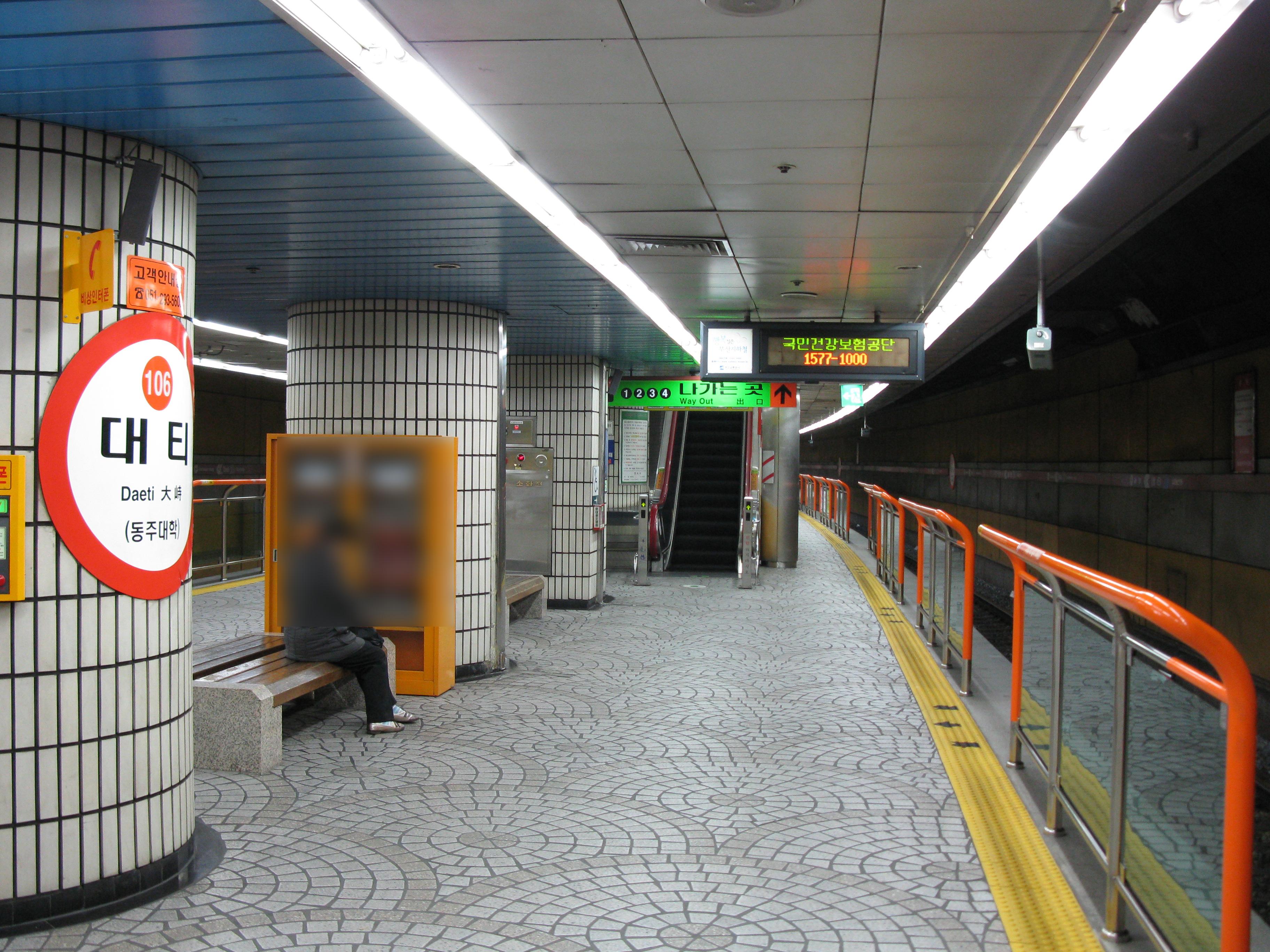 Daeti Station platform (Busan Subway Line 1)